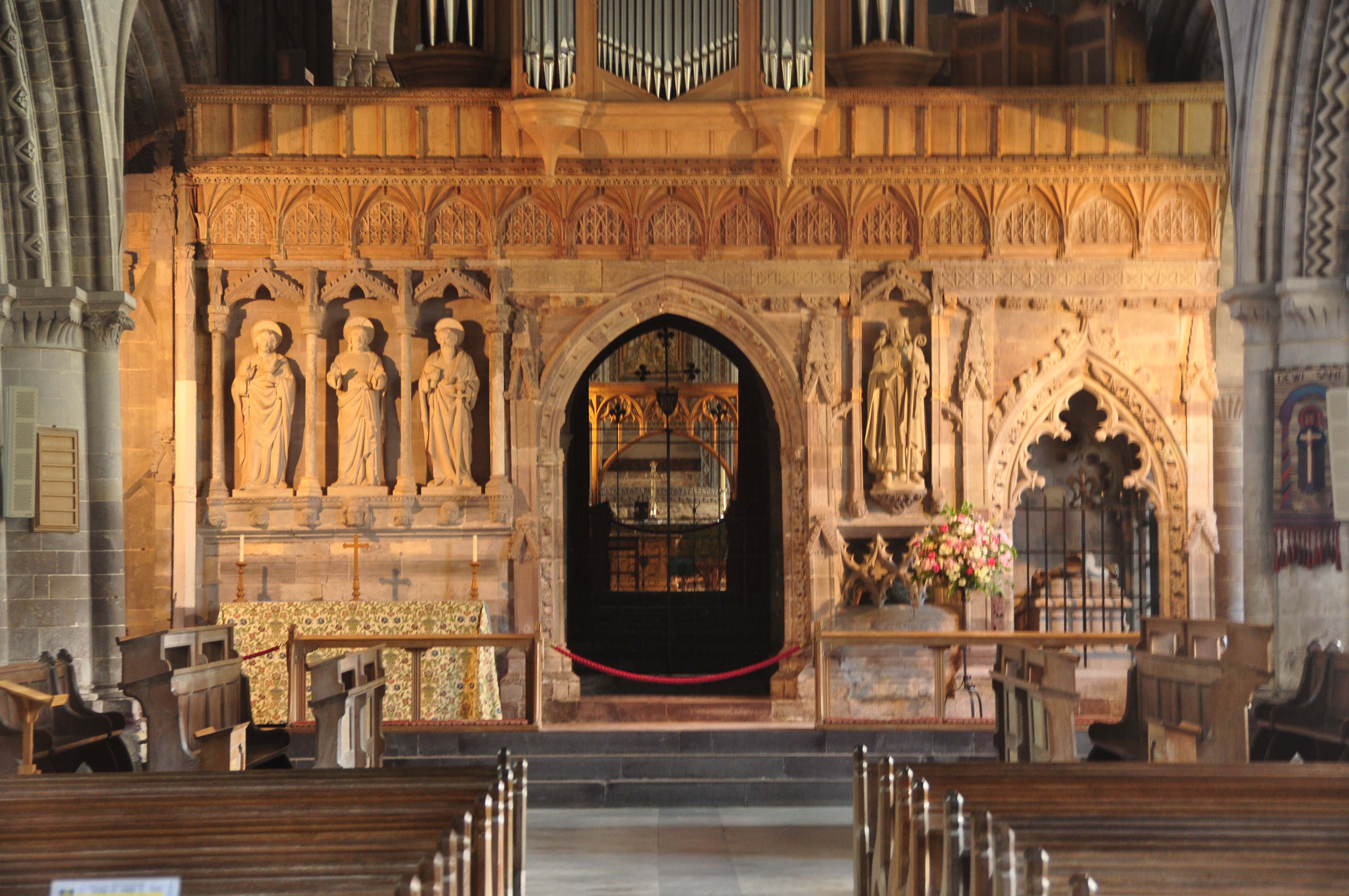 St David's Cathedral